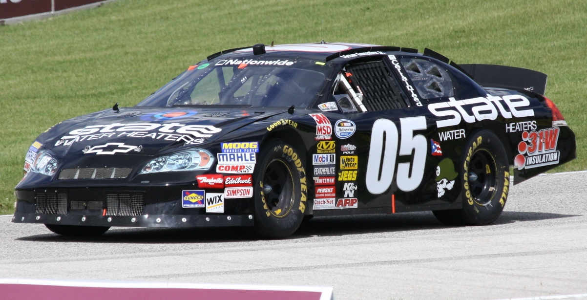 The NASCAR racecar for driver Victor Gonzalez, Jr. at the 2010 Bucyrus 200 at Road America.